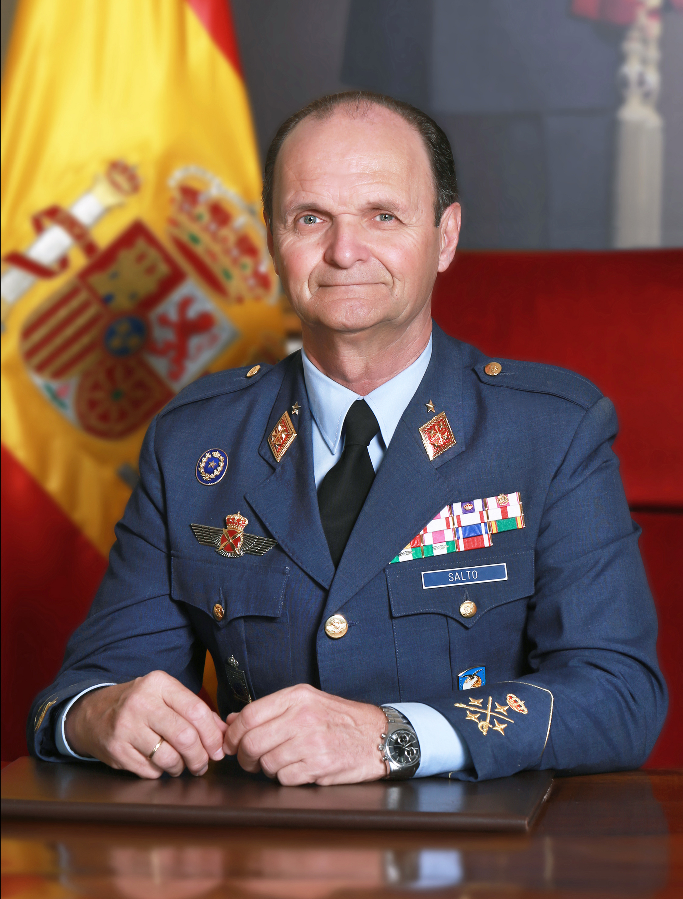 Official photo of the Chief of Staff of the Air Force (JEMA), Javier Salto Martínez-Avial.